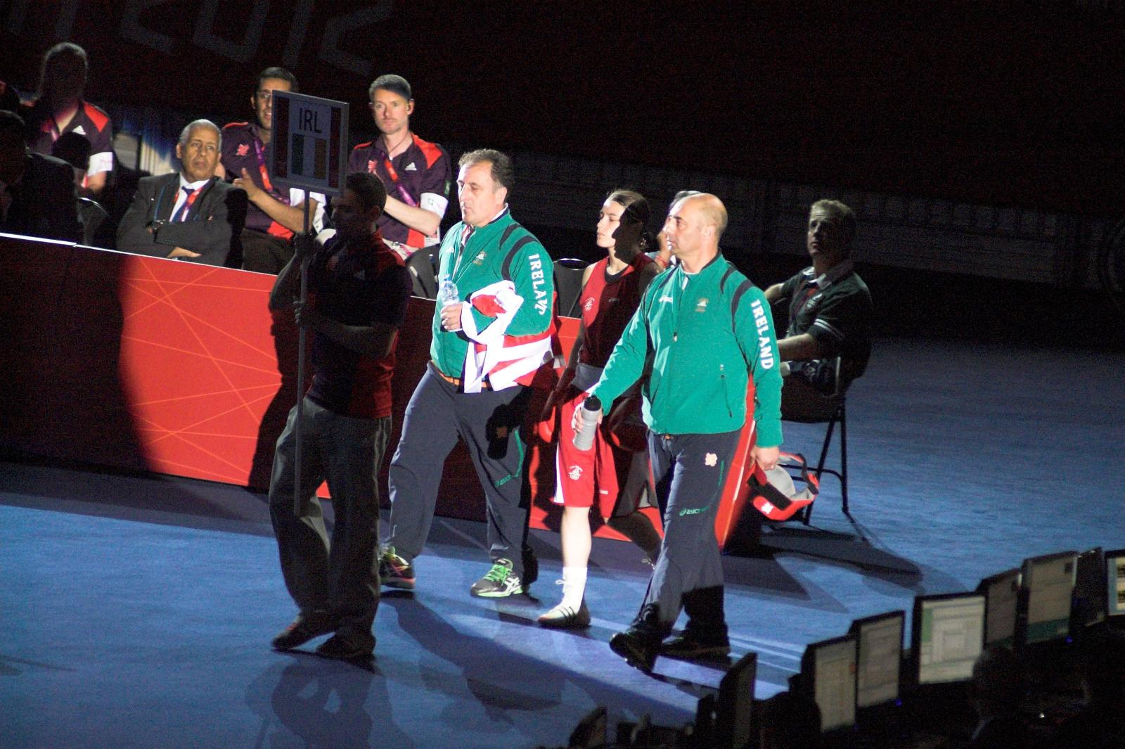 Katie Taylor entering the 2012 summer Olympics in London